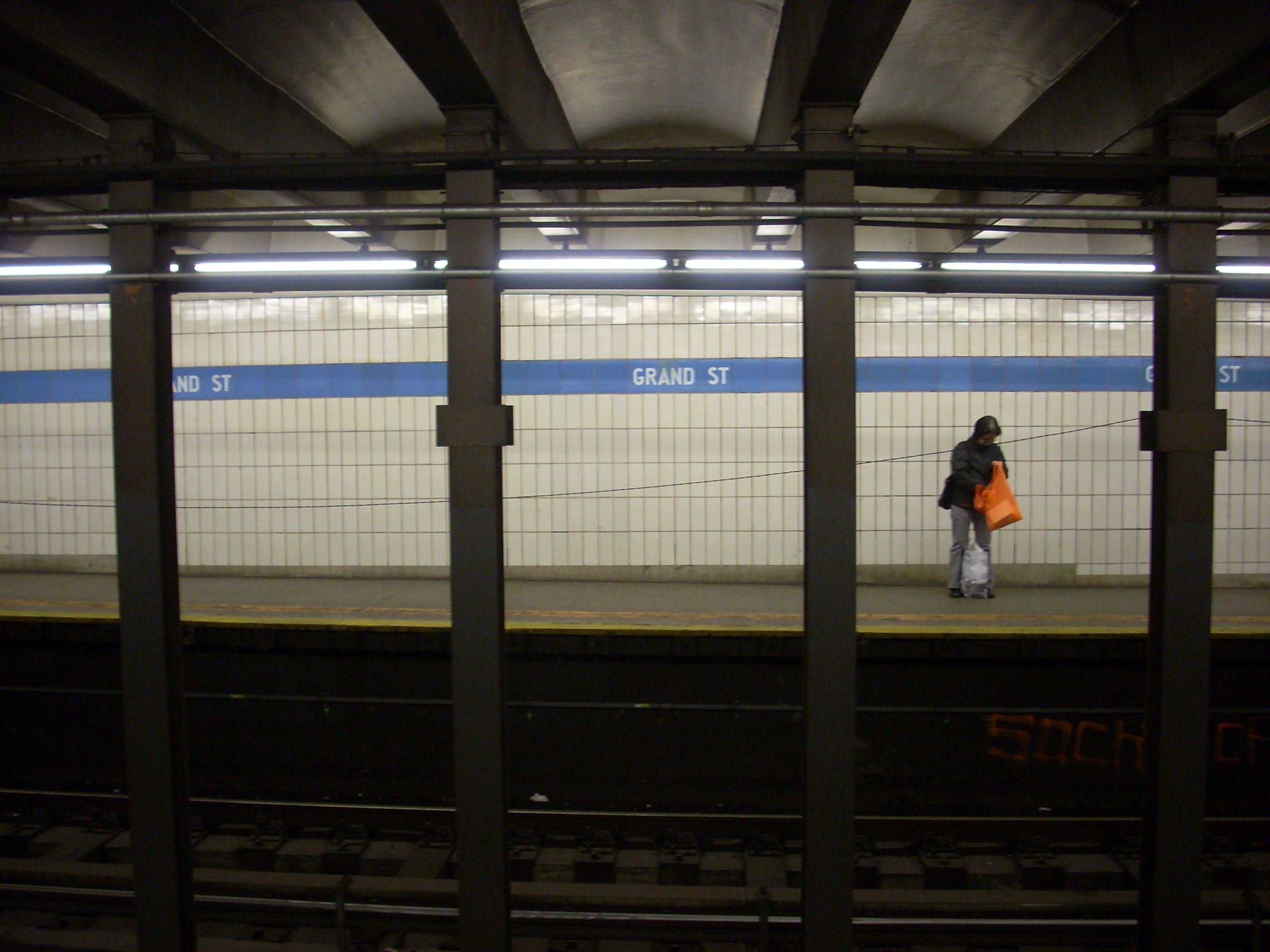 Grand Street station on the B/D